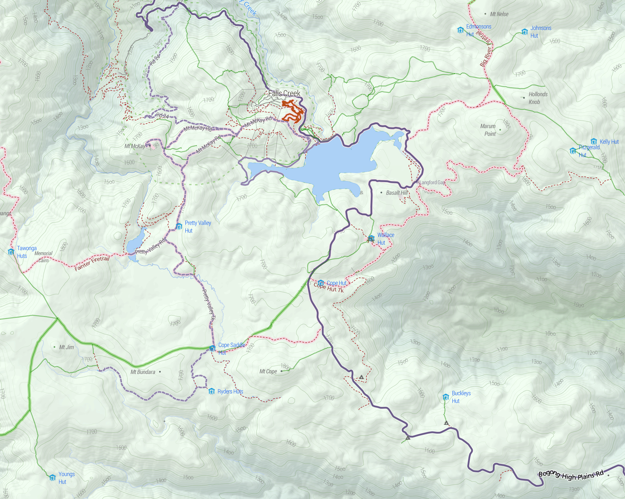 Topographic Map of the Bogong High Plains area, showing huts, hiking (green) and mountain biking (pink) paths. Cartography by Steve Bennett Map data is OpenStreetMap.